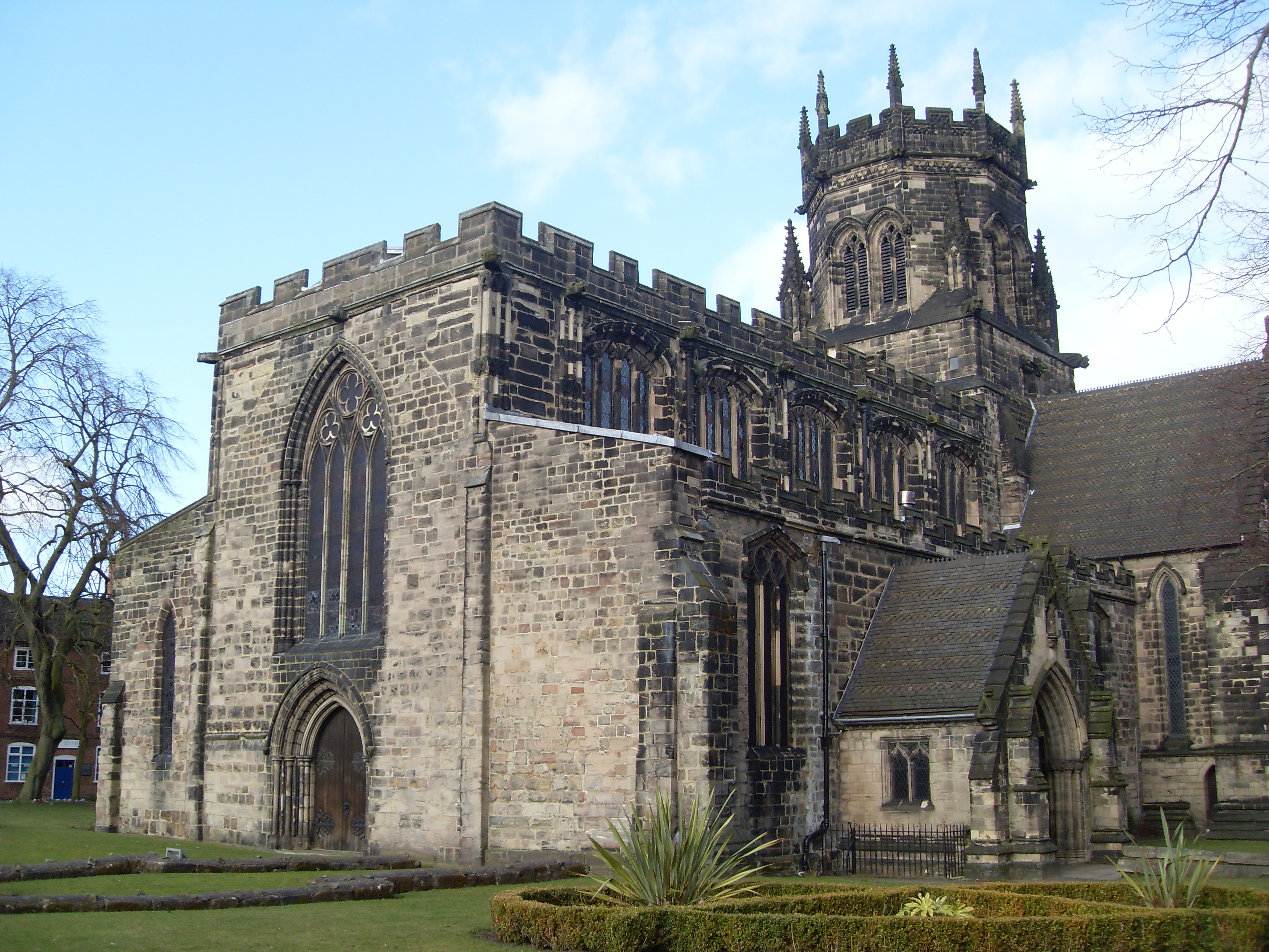 The Collegiate church Saint Mary of Stafford in the Staffordshire, England